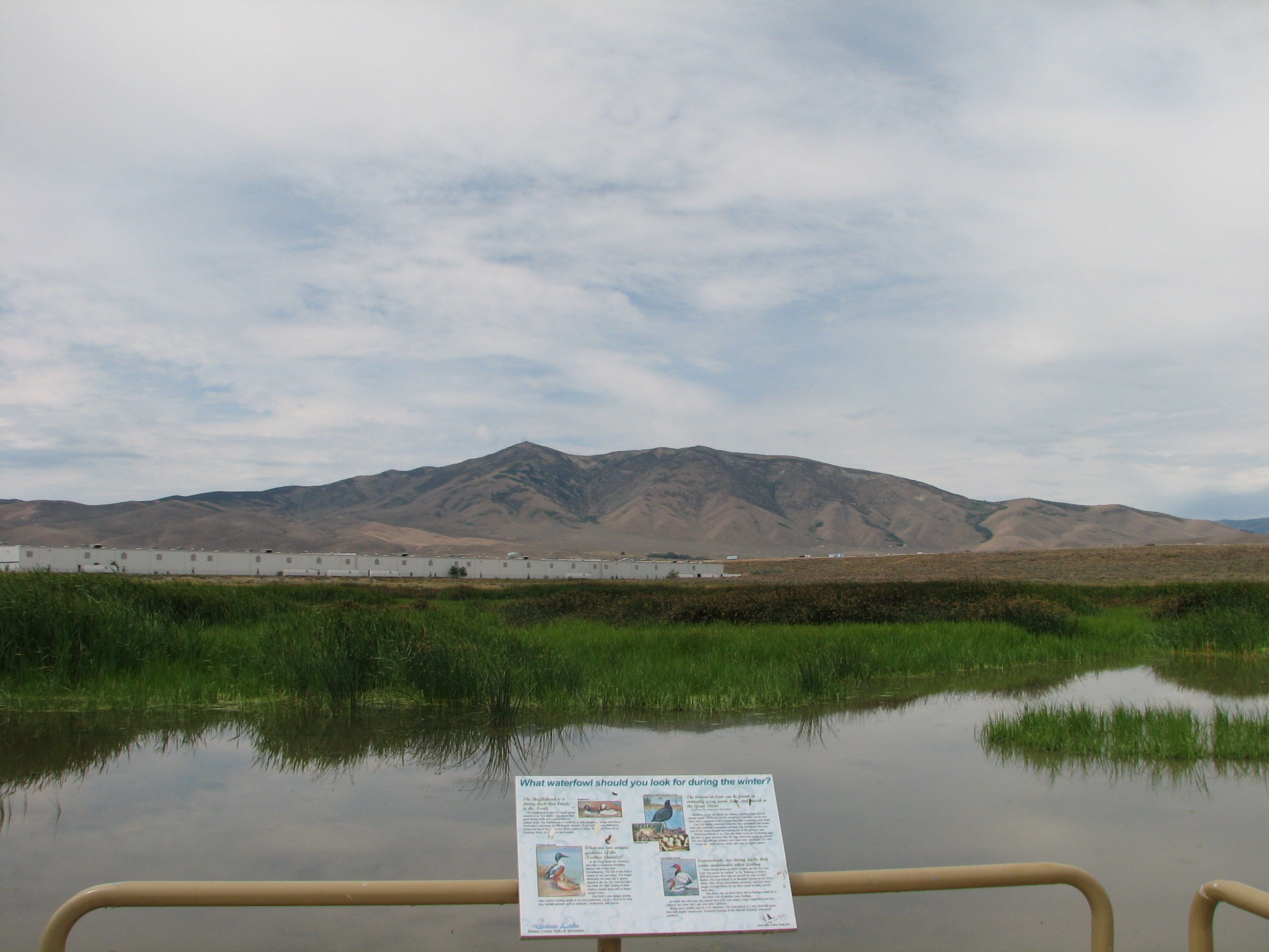 Mount Peavine, seen from the Swan Lake Nature Study Area, a small conservation area north of Reno, Nevada